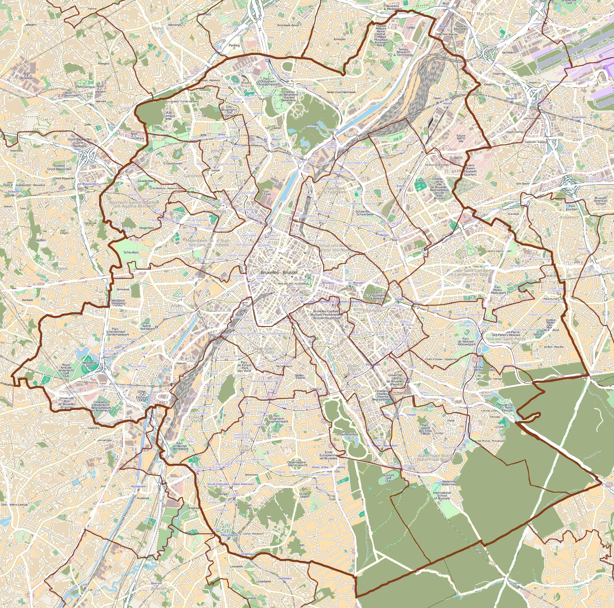 This map of Brussels-Capital Region was created from OpenStreetMap project data, collected by the community. This map may be incomplete, and may contain errors. Don't rely solely on it for navigation.